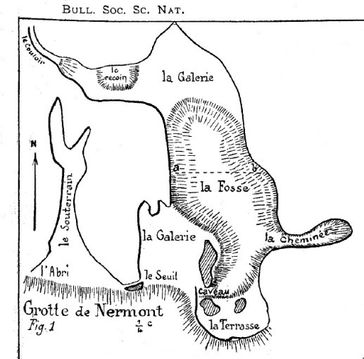 Saint-Moré caves in Saint-Moré, Yonne, Burgundy, France. Drawings by A. Parat of pottery found in these caves (mainly the Nermont cave) and nearby. In Les Grottes de l'Yonne : la grotte de Nermont et les grottes de la Cure, du Vau-de-Bouche, du Cousain, du Serain et de l'Armancon, 5 pages (I, II, III, IV and V) of drawings at the end of the book. This drawing in page I : figure 1, map of the Nermont cave.